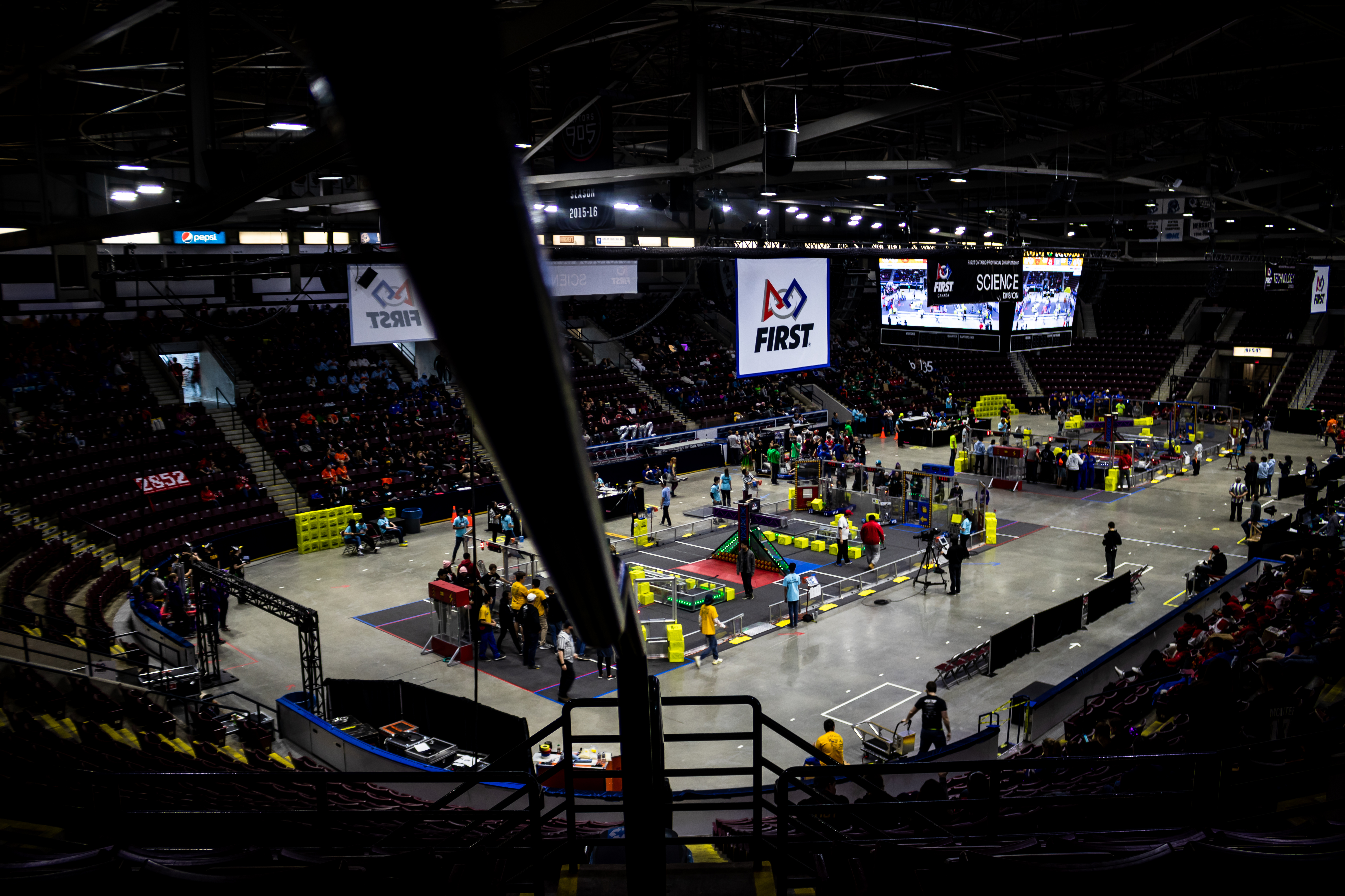 taken during day 2